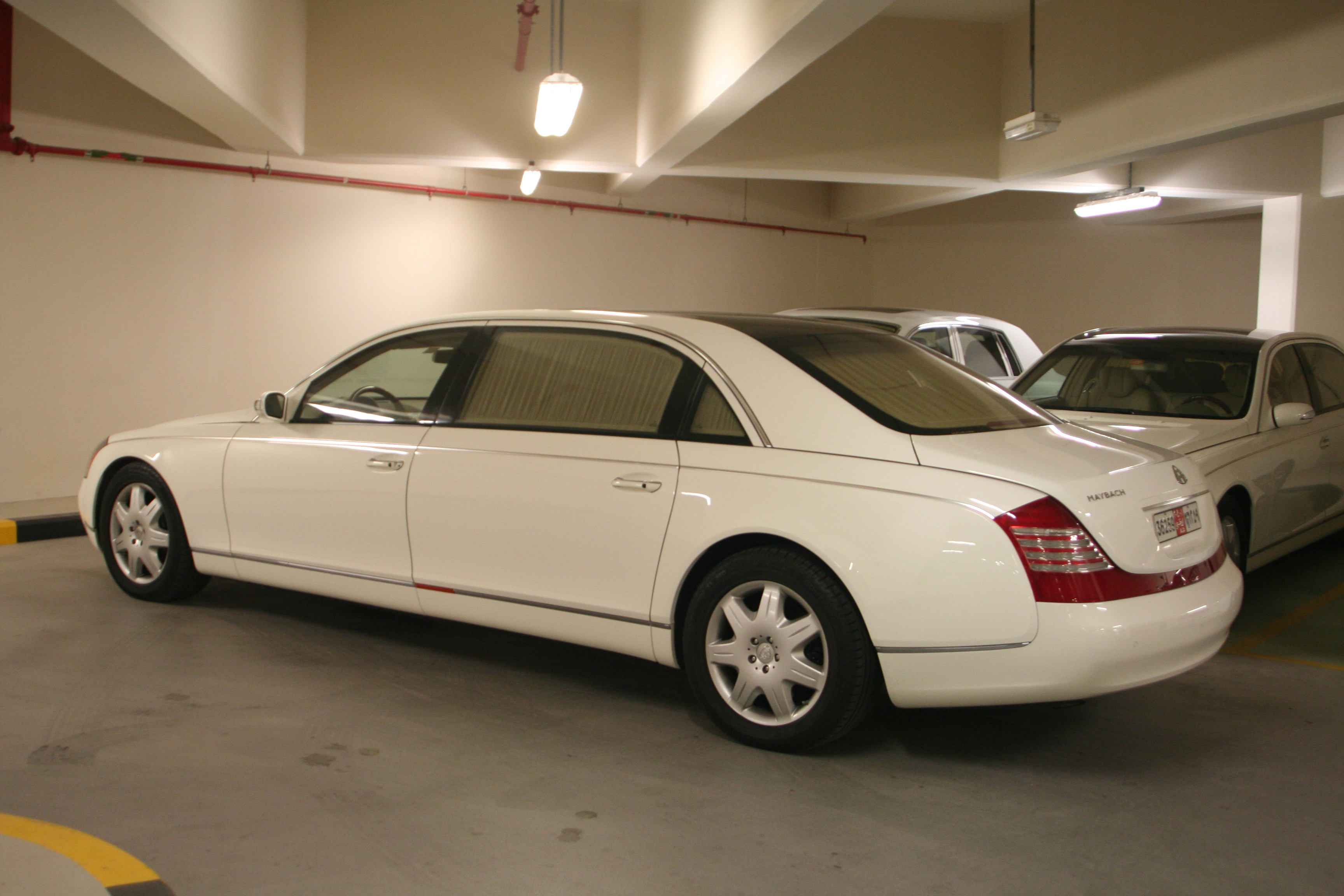 Maybach 62 (which I think actually looks pretty crappy, but is probably quite comfortable)